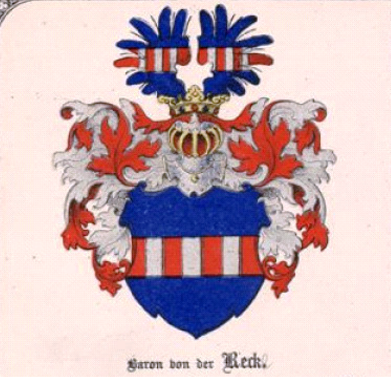 Coat of arms of Baron von der Reck family